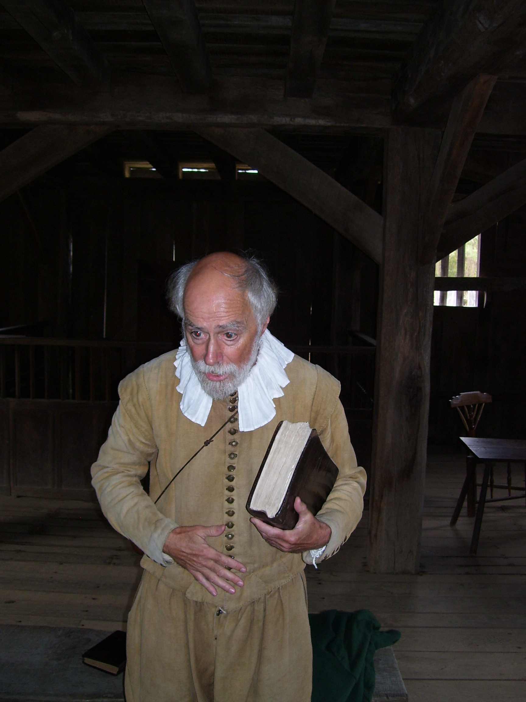 My 2009 photo of Dr. Samuel Fuller from Plimoth Plantation in Plymouth, Massachusetts, USA.